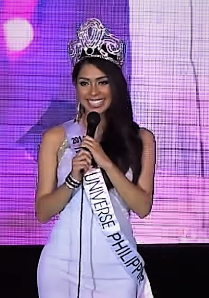 Mutya ng City of Mati 2014: MJ Lastimosa Bb. Pilipinas Universe 2014 Mary Jean Lastimosa was invited as judge during the coronation night of this year's Mutya ng City of Mati held Wednesday, June 18.